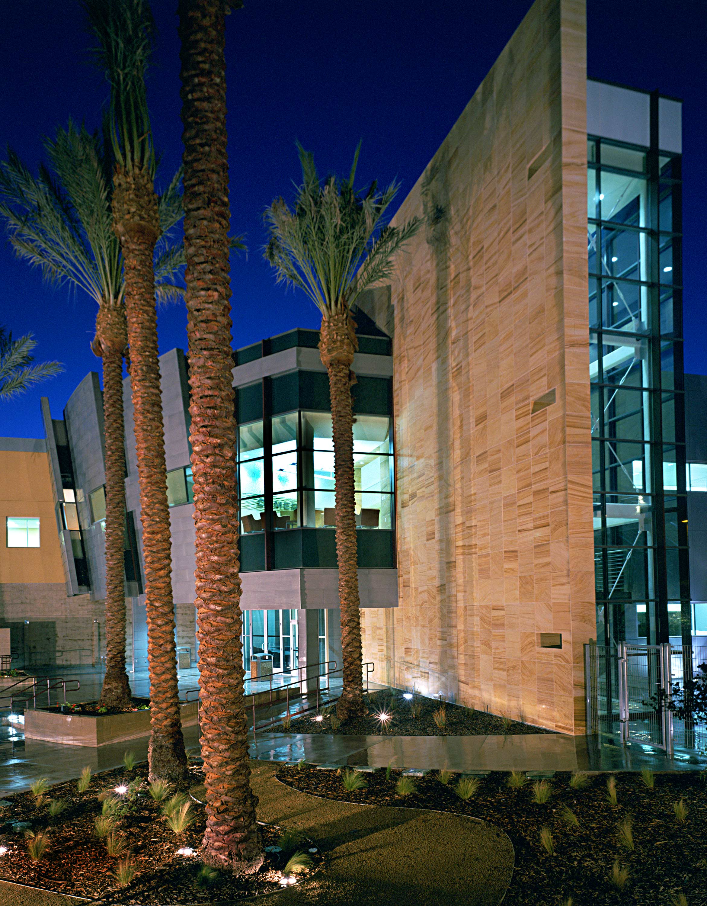 Photo of building 6 at the San Diego headquarters of Cymer